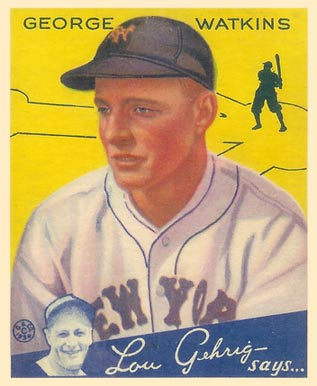 1934 Goudey baseball card of George Watkins of the New York Giants #53. PD-not-renewed.